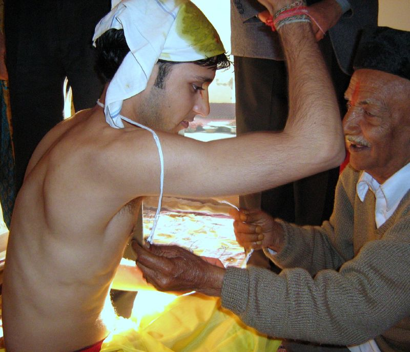 Upanayana is the initiation of a child, youth or adult into formal education process, particularly of ancient Sanskrit texts such as Vedas, Upanishads and Smritis. The wearing of thread, from left shoulder side flowing down towards the right is part of the ceremony.